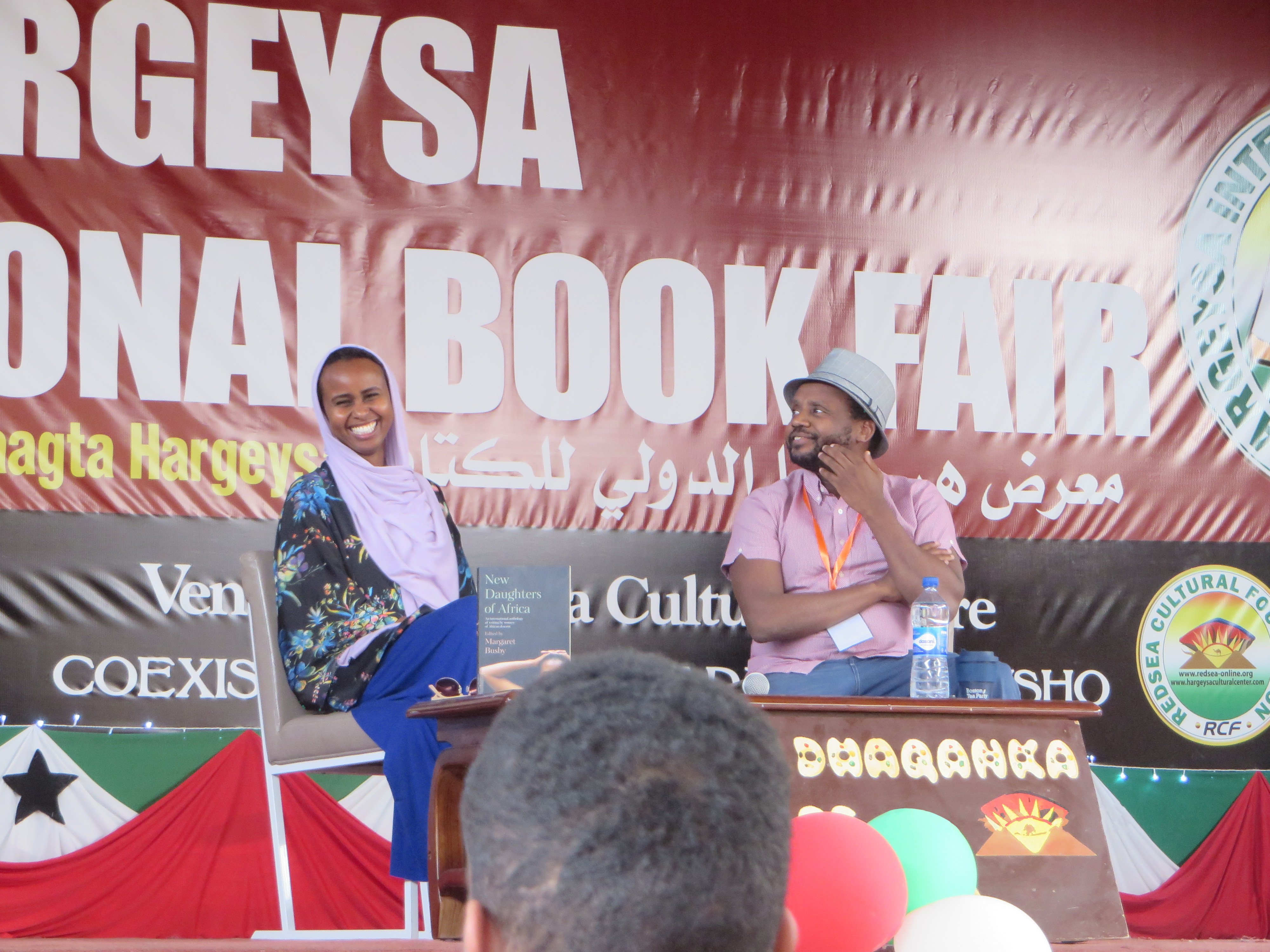 Nadhifa Mohamed, Somali-British novelist in discussion with Billy Kahora, a Kenyan writer. Hargeysa 12th International Book Fair 20-25 July 2019.